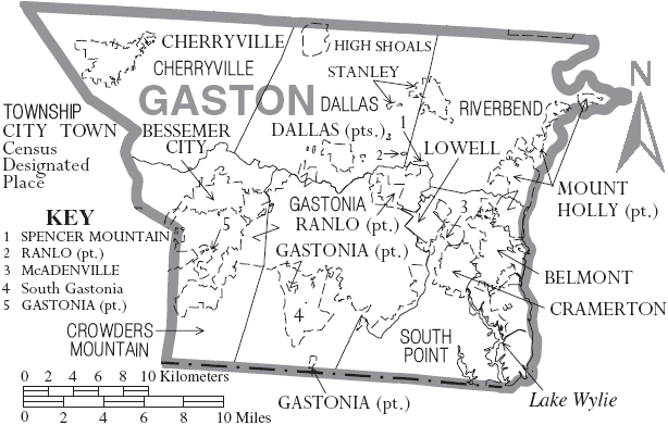 Map of Gaston County, North Carolina, United States with township and municipal boundaries